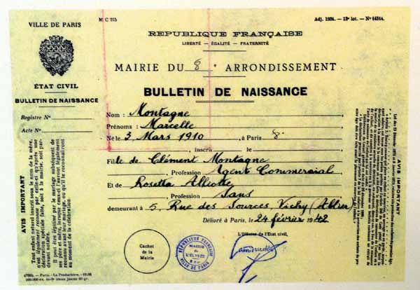 The OSS of World War II forged a French identification certificate for "Marcelle Montagne," an alias of spy Virginia Hall